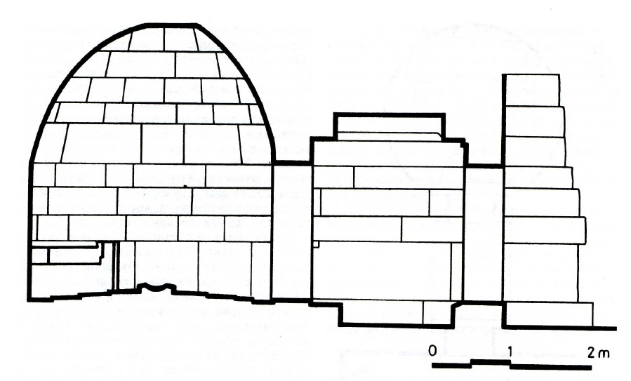 Arsenalka tom plan2